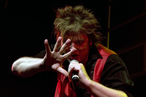 The Forum, November 2008 See the full gallery: [1]